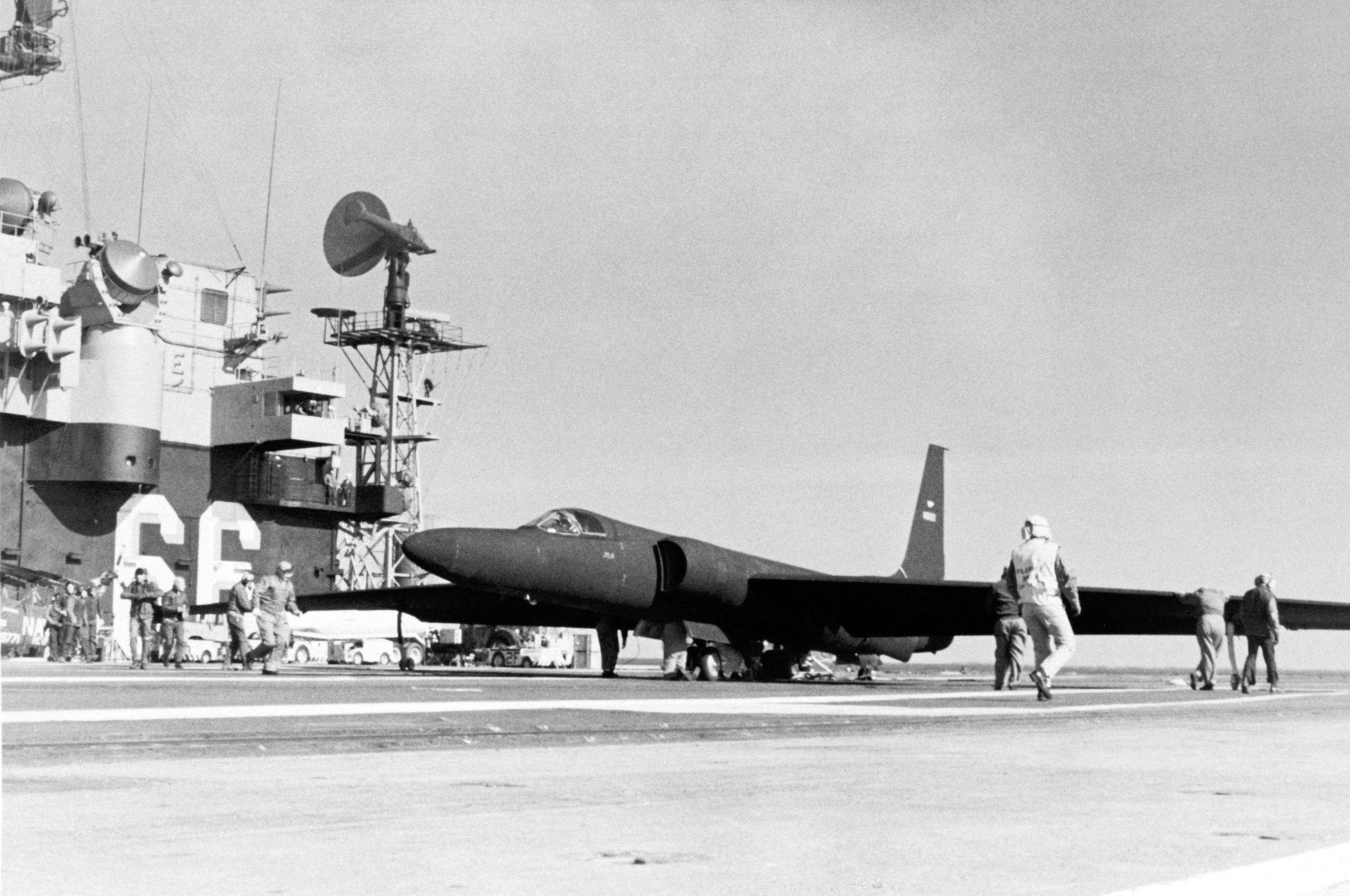 A left front view of a U-2 reconnaissance aircraft parked on the flight deck of the aircraft carrier USS AMERICA (CV 66).